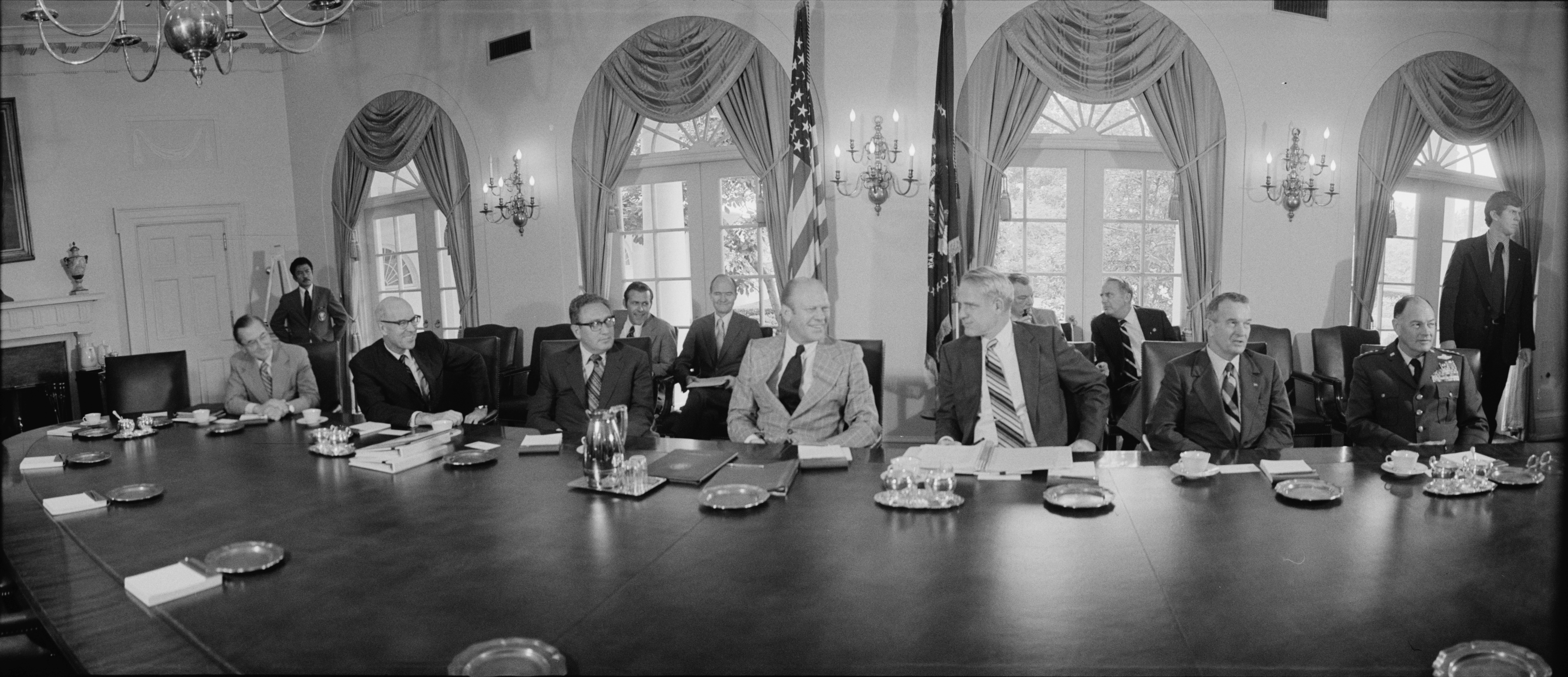 President Gerald Ford meeting with the National Security Council in the Cabinet Room of the White House. Photographic negative showing President Ford seated at a table with William E. Colby, Director of CIA; Robert S. Ingersoll, Deputy Secretary of State; Henry Kissinger, Secretary of State; James R. Schlesinger, Secretary of Defense; William P. Clements, Jr., Deputy Secretary of Defense; George S. Brown, Chairman of Joint Chiefs.